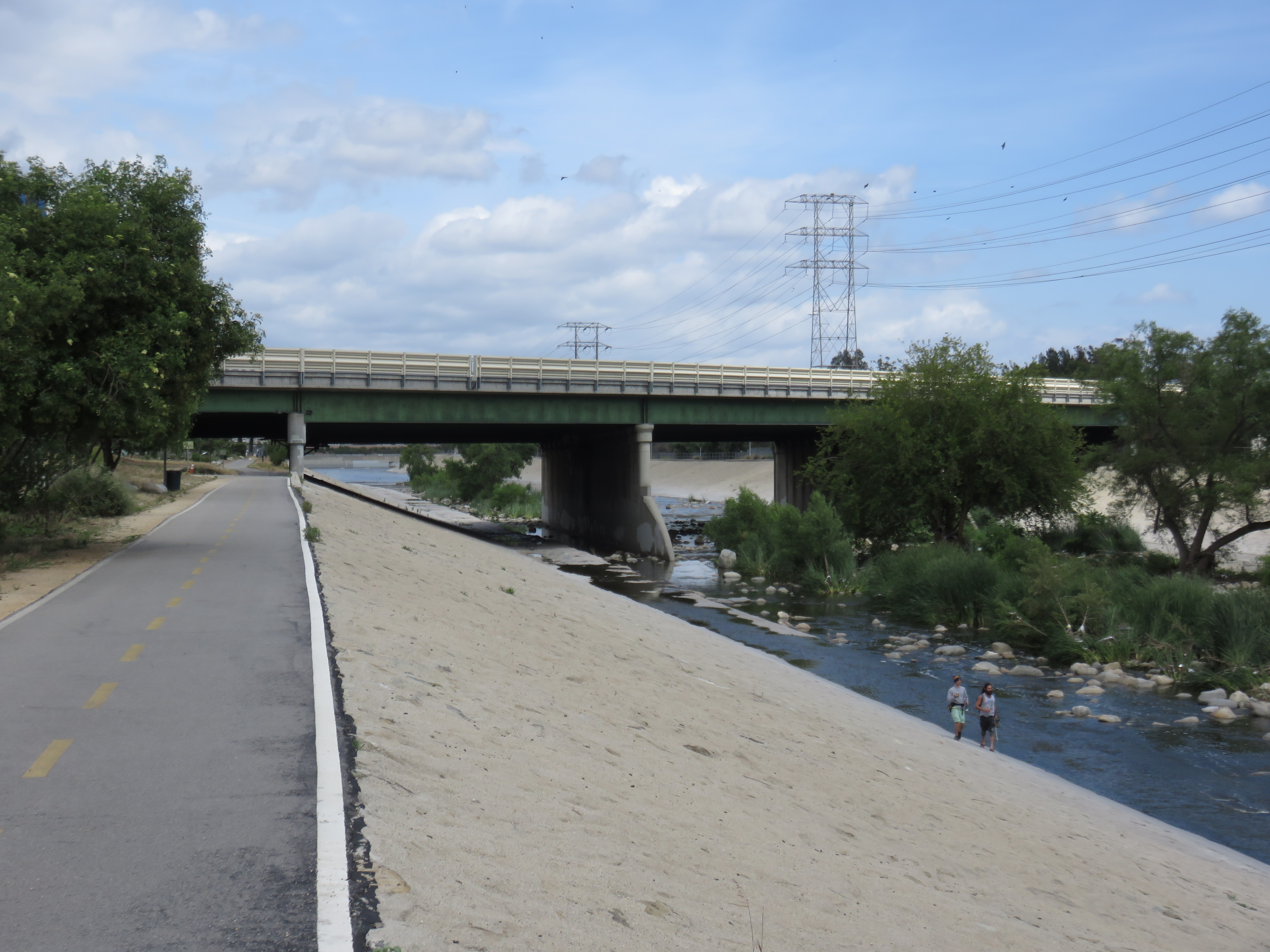 Interstate 5 bridge over the Los Angeles River in Glendale and Los Angeles, California in 2019